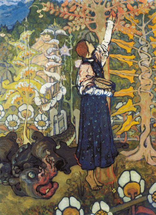 The Beast